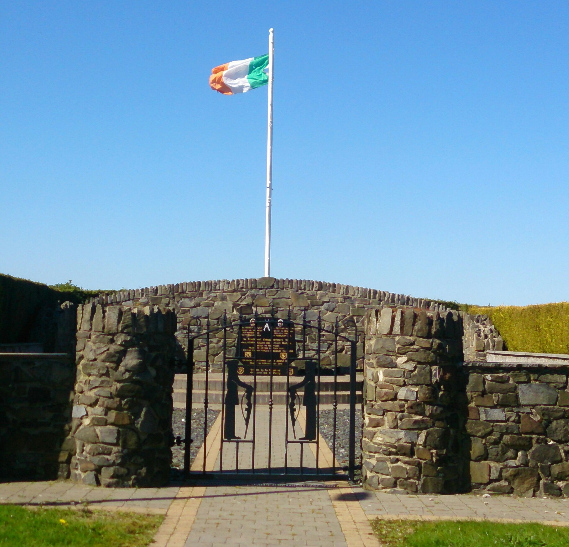 A memorial in Dunloy honouring IRA volunteers Henry Hogan and Declan Martin.